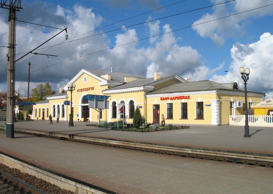 Railway station of Asipovichy (Асiповiчы; Осиповичи) in Mogilev region, Belarus.